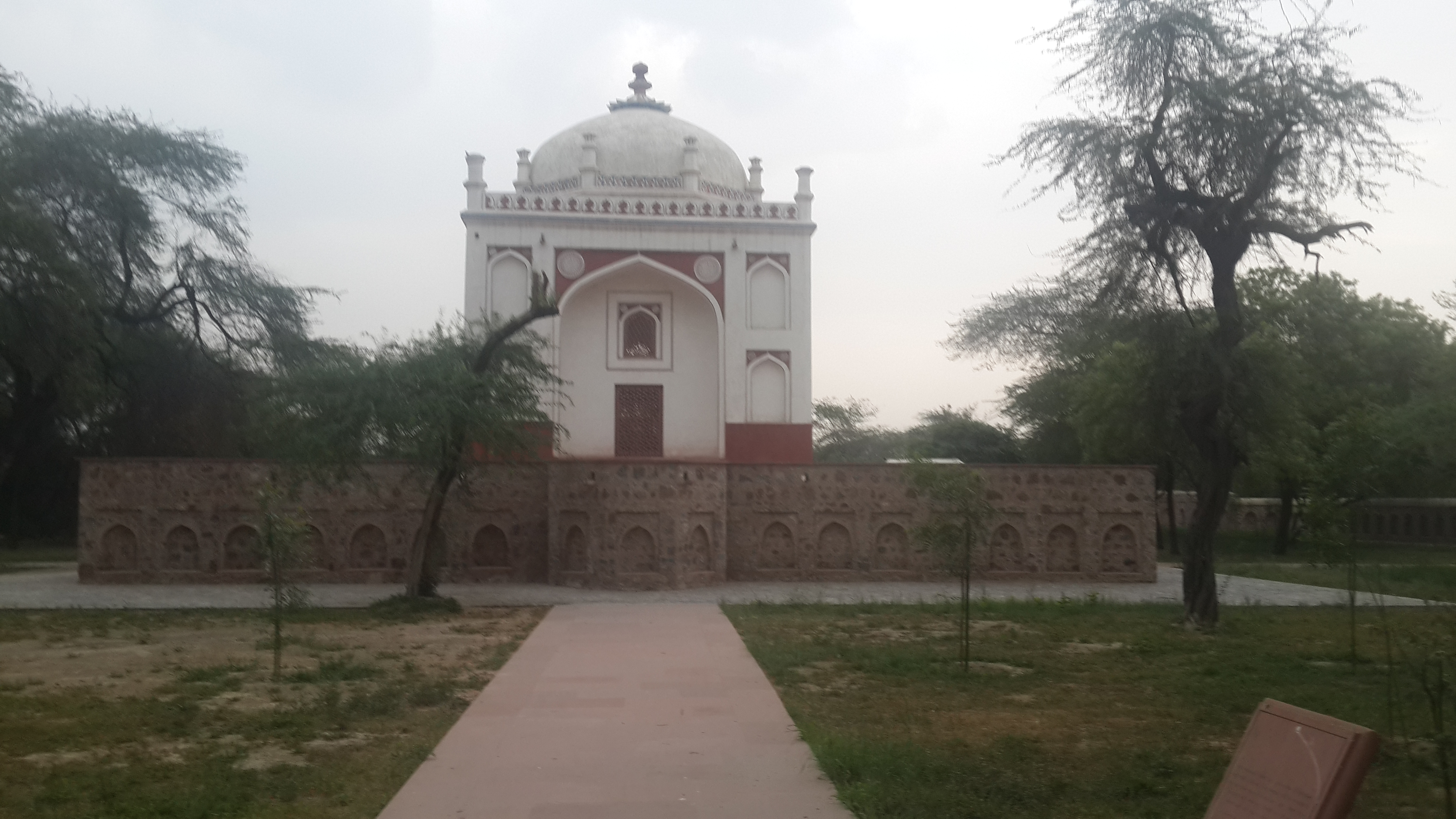 Unnamed tomb in Battashewala tomb complex in Delhi renovated in 2013-15